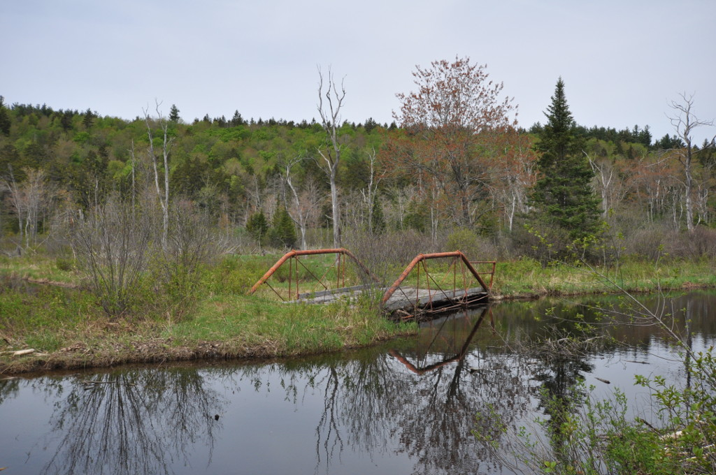 Coleman Bridge, Windsor, Massachusetts. A unique patented design, it is the only bridge of its type that is still at its original site (now beaver-infested).